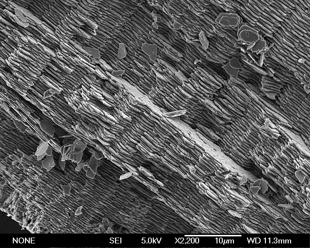 SEM micrograph of a part of the nacre layer of Leymeriella, a Lower Cretacoeus (Albian) ammonite, showing the typical stacks of tabular hexagonal crystals.